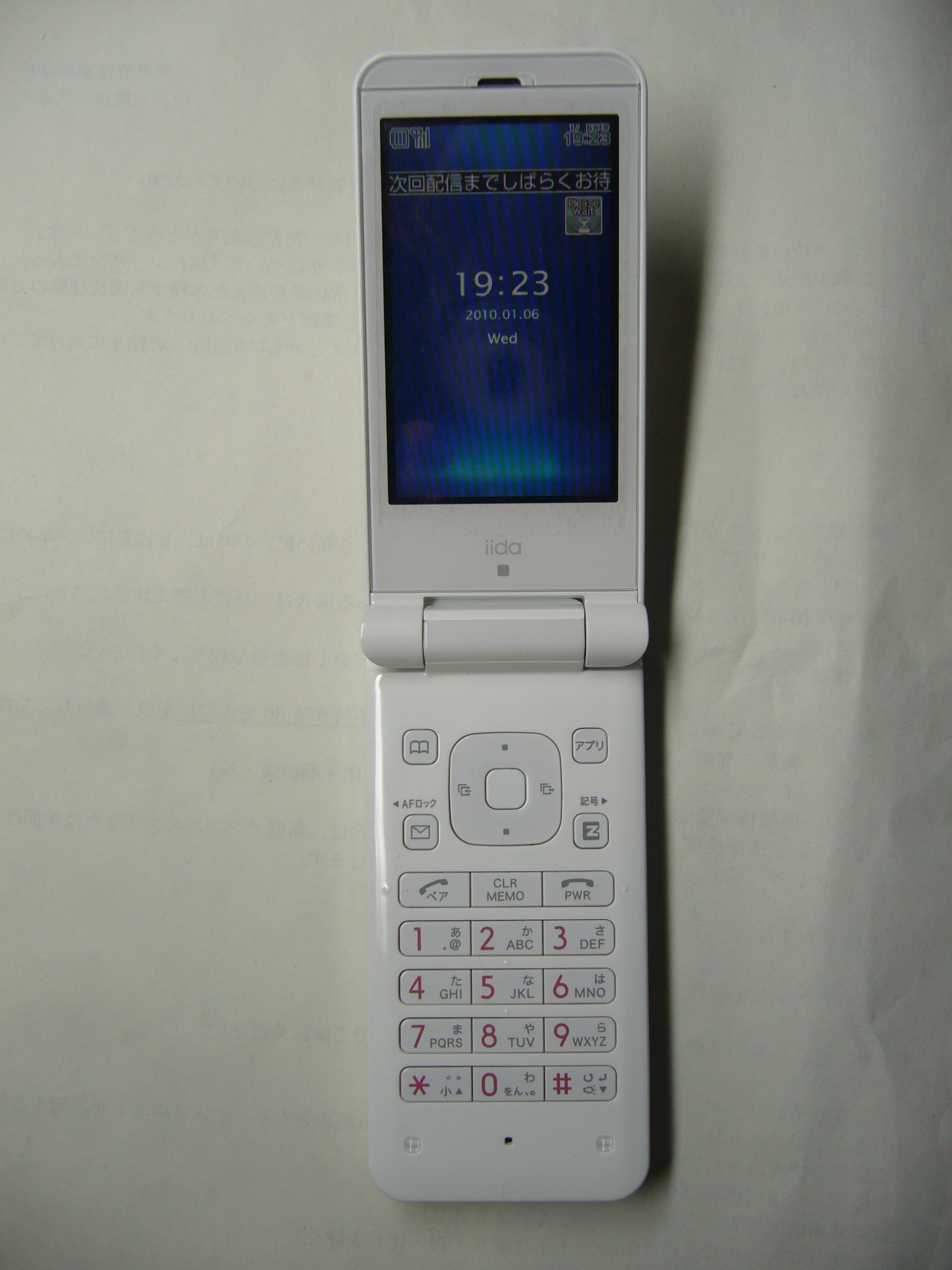 This is a picture of misora,which is a mobile phone made by Kyocera Corporation and sold by KDDI Corporation.